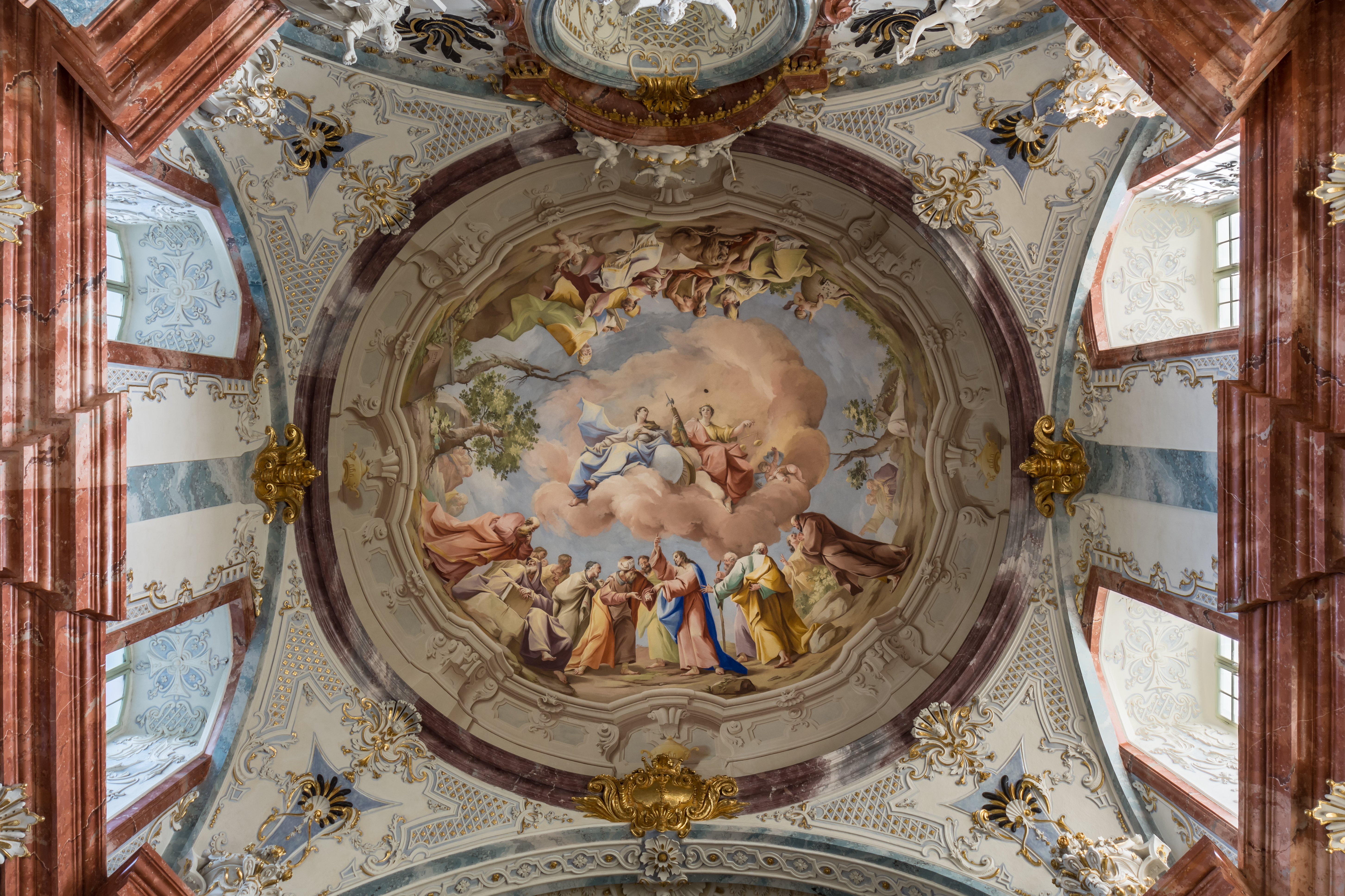 Fresco of the north dome at the library of Altenburg Abbey (Lower Austria) by Paul Troger (1742): Theology and Jurisprudence